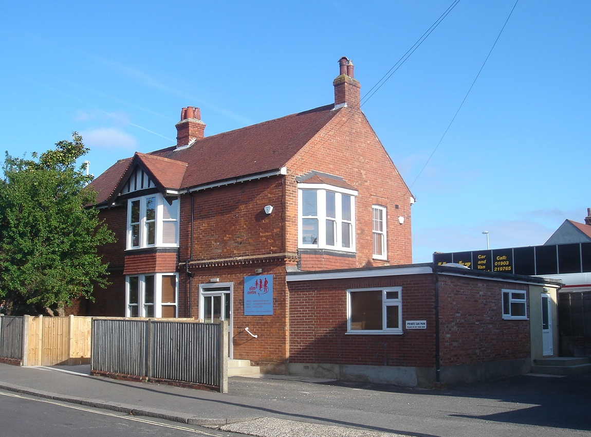 Elim Christian Fellowship Church, Broadwater Road, Worthing, West Sussex, England.